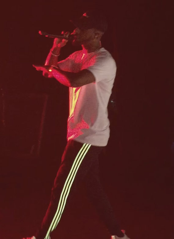 singer/rapper Bryson Tiller performing in 2016